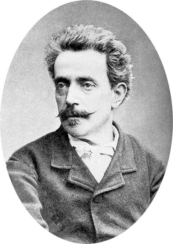 Italian opera librettist (1824-1893).